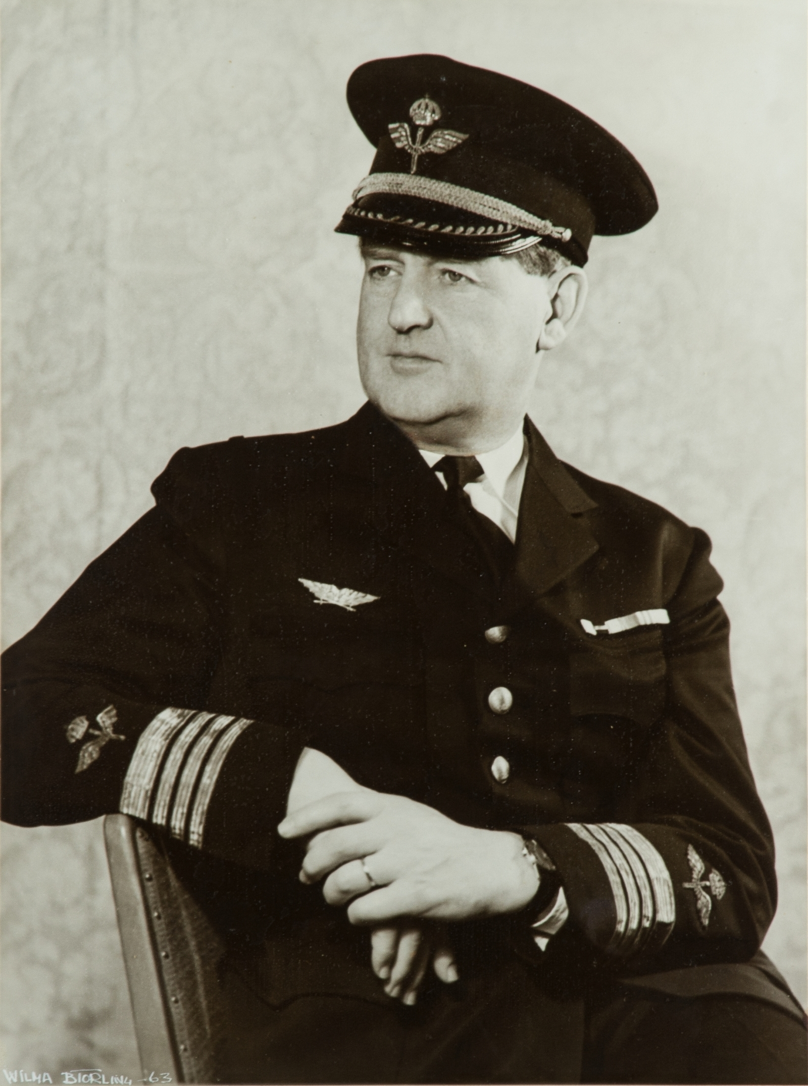 Portrait photograph of Erik Raab, commander of Södertörn Air Force Wing (F 18) from 1949 to 1963.